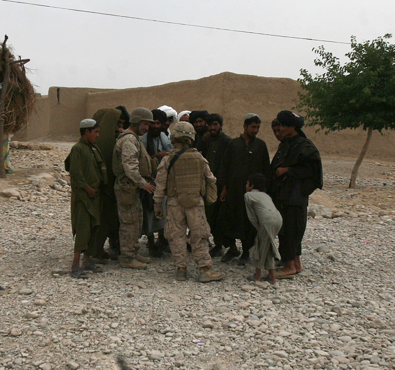 2nd Lt. Caitlin Ferrarell, a platoon commander with Bravo Company, Combat Logistics Battalion 6, 1st Marine Logistics Group (Forward) and Ray, the battalion interpreter, gather intelligence from local Afghans during a combat logistics patrol to the area, May 9. Among many of the wants and needs listed, medical care for woman and children were among the most important issues addressed.